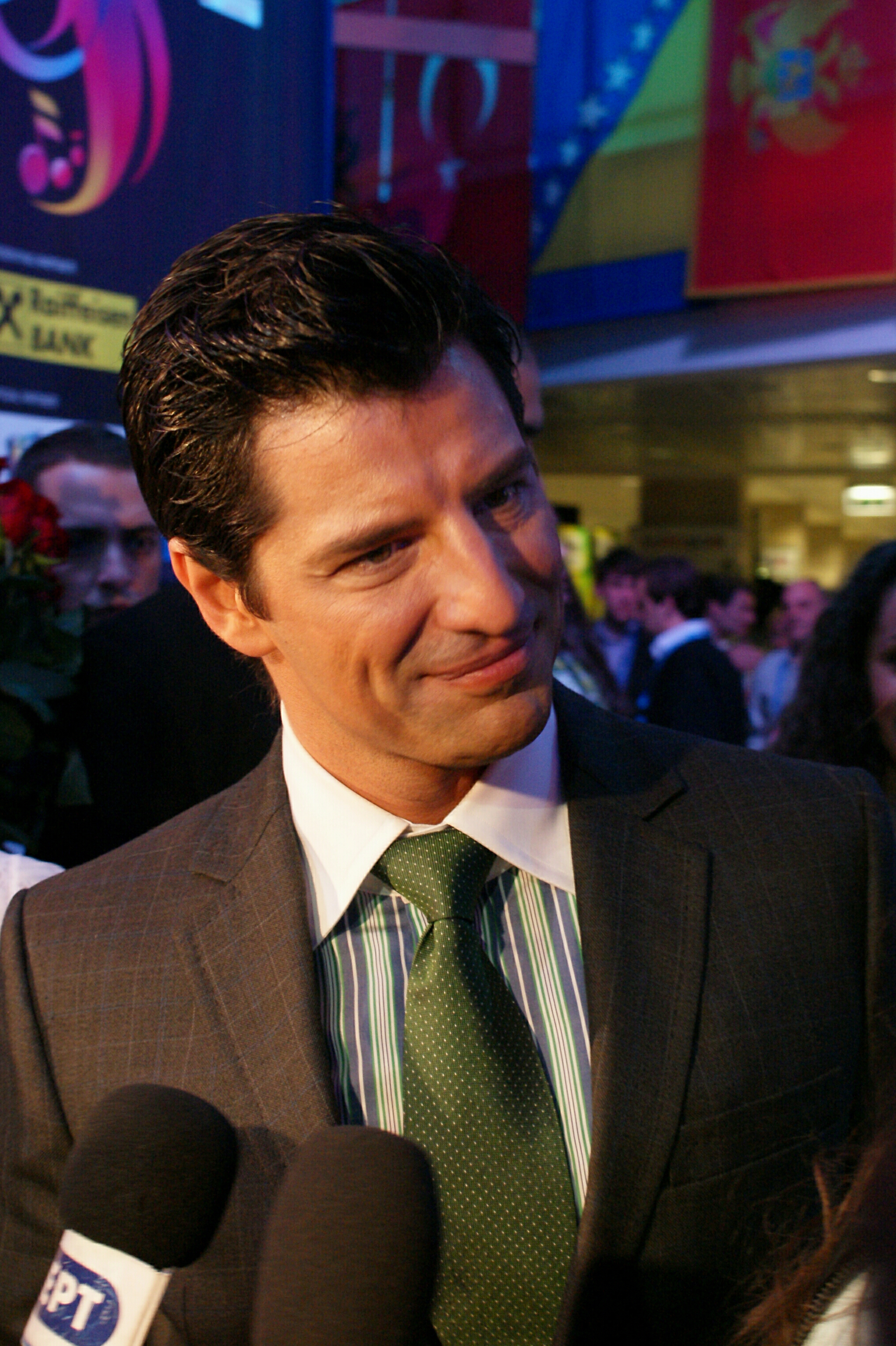 Sakis Rouvas in an interview with ERT